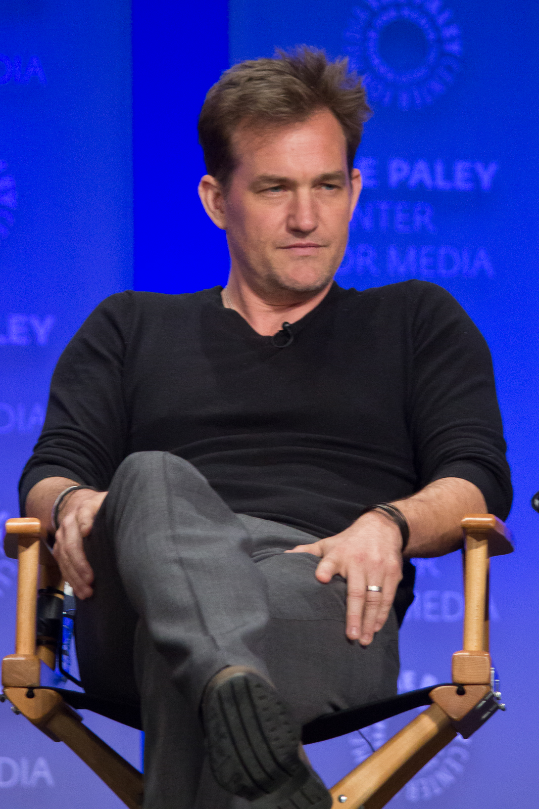 Maury Sterling at PaleyFest 2015 - An Evening with the Cast and Creative Team of Homeland